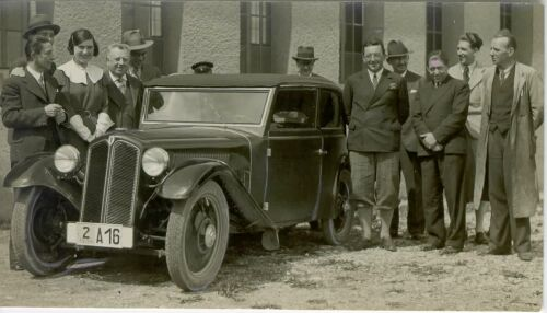 Stanko Bloudek (1890-1959)